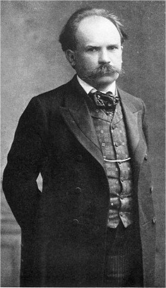 1904 photograph, long out of copyright